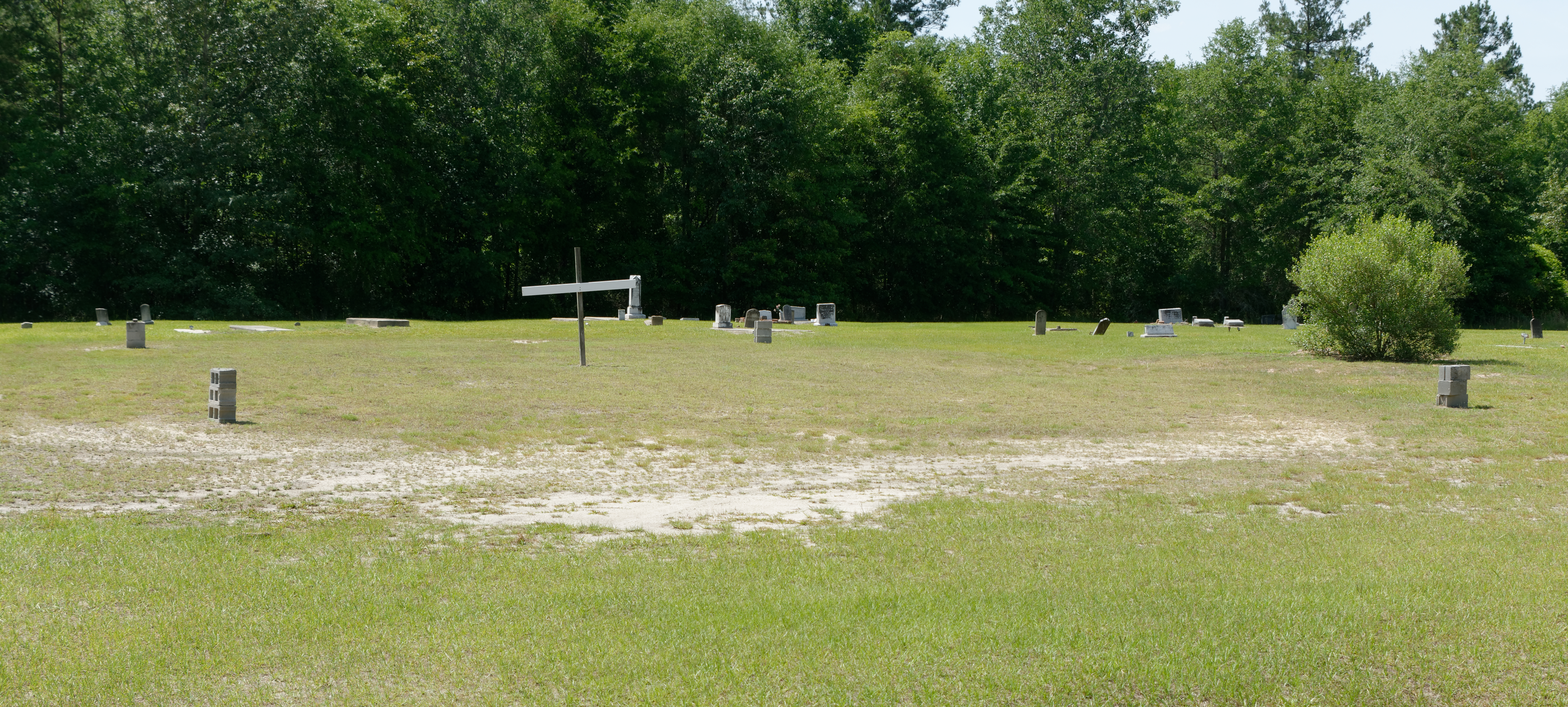 Carswell Grove Baptist Church and Cemetery - the original church is gone, but it was here and the four stacks of blocks seem to indicate its corners